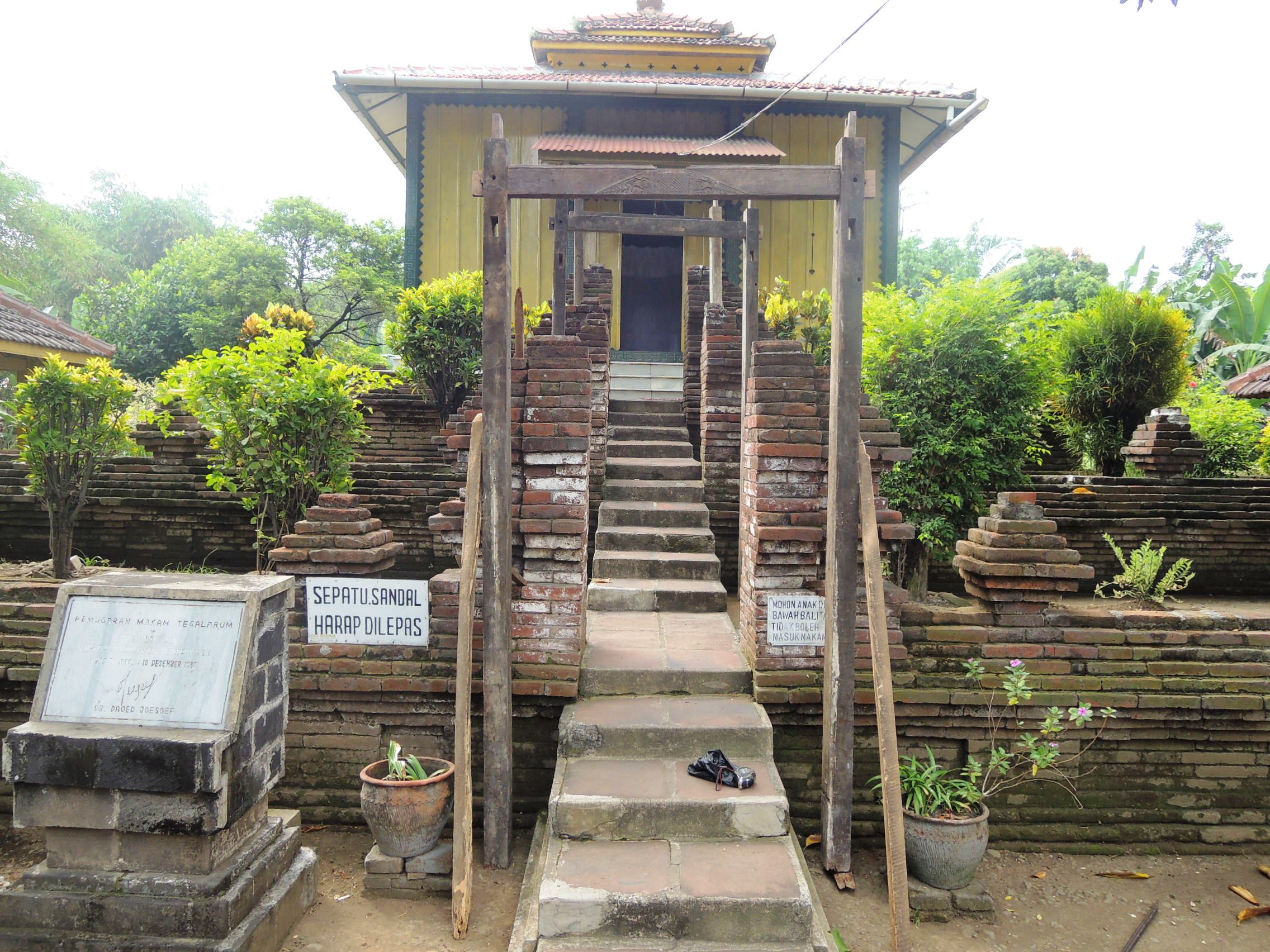 The Grave of Amangkurat I in Tegal Arum Complex Location: Dusun Pakuncen, Desa Pasarean, Kecamatan Adiwerna, Tegal Regency, Central Java, Indonesia